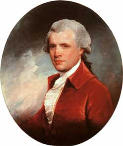 Portrait of John Singleton Copley (1738-1815)